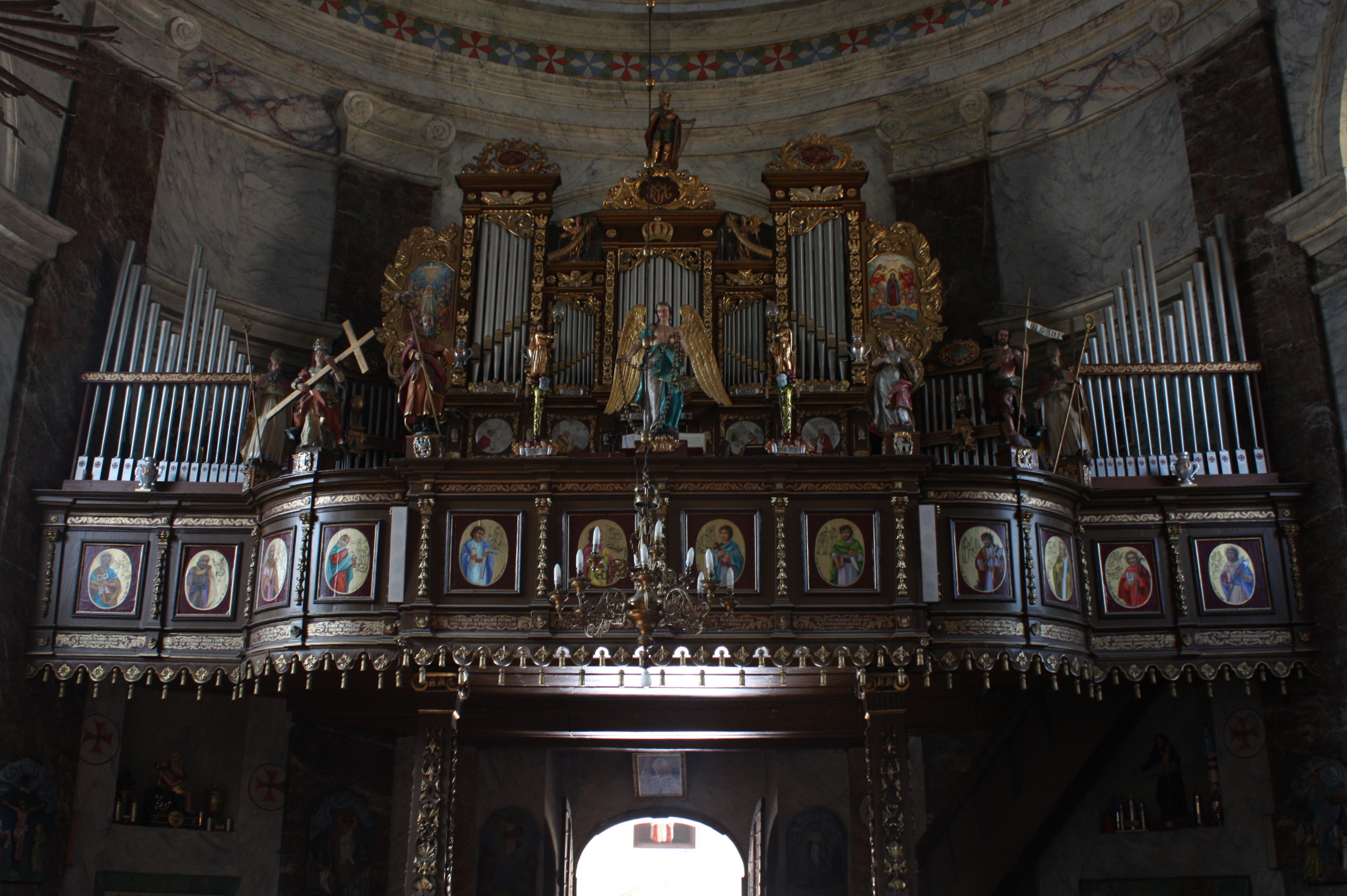 This photo of Warmian-Masurian Voivodeship was taken during Wikiexpedition 2012 set up by Wikimedia Polska Association. You can see all photographs in category Wikiekspedycja 2012. The making of this document was supported by Wikimedia Polska.